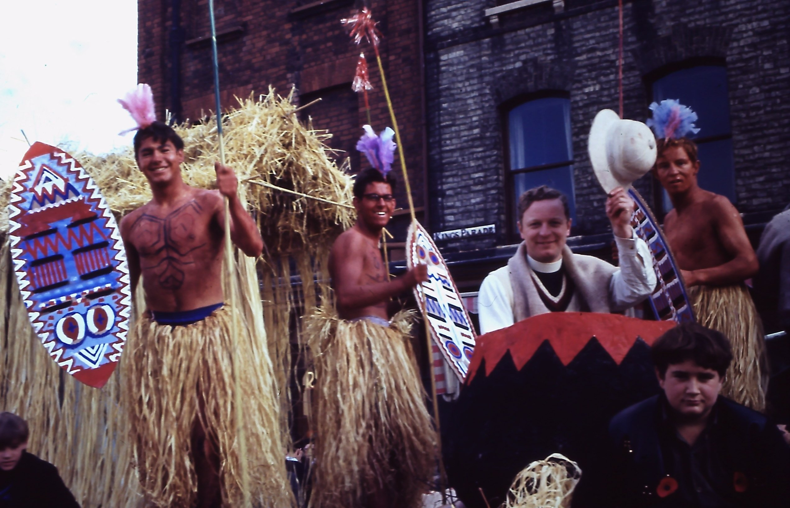 A float in the Cambridge Poppy Day parade in 1964 seen on King's Parade. The "savages" are first year undergraduates from St John's College. The missionary in the cooking pot is Keith Sutton, at that time chaplain of St. John's. At that time Hugh Montefiore was vicar of the university church, Great St Mary's. Montefiore went on to be Bishop of Kingston-upon-Thames and Keith Sutton followed him to that post - coincidence or old-boy network?